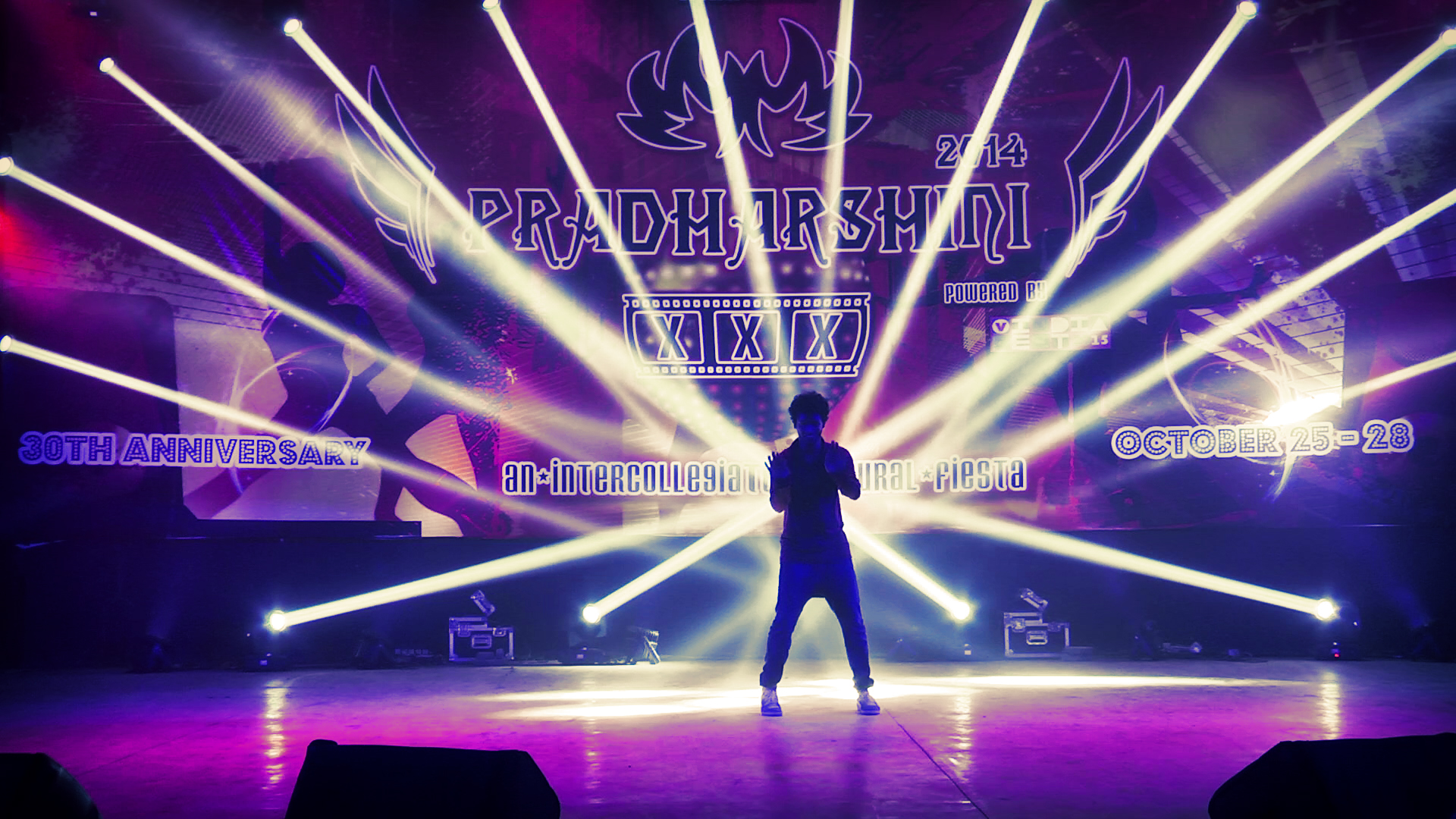 The Stage of Pradharshini 2014